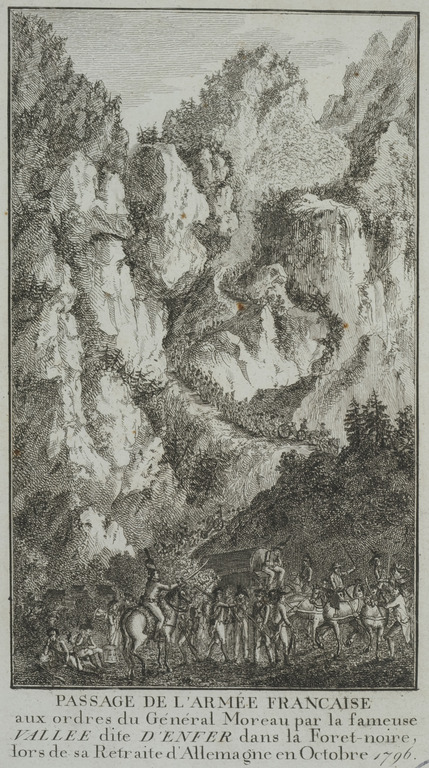 General Moreau's Army, passage from Germany, 1796